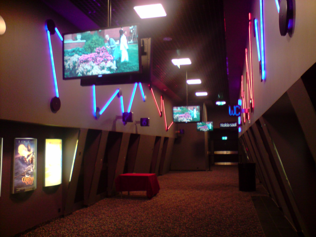 Cinema "Cinamon" in Solaris shopping centre, Tallinn.